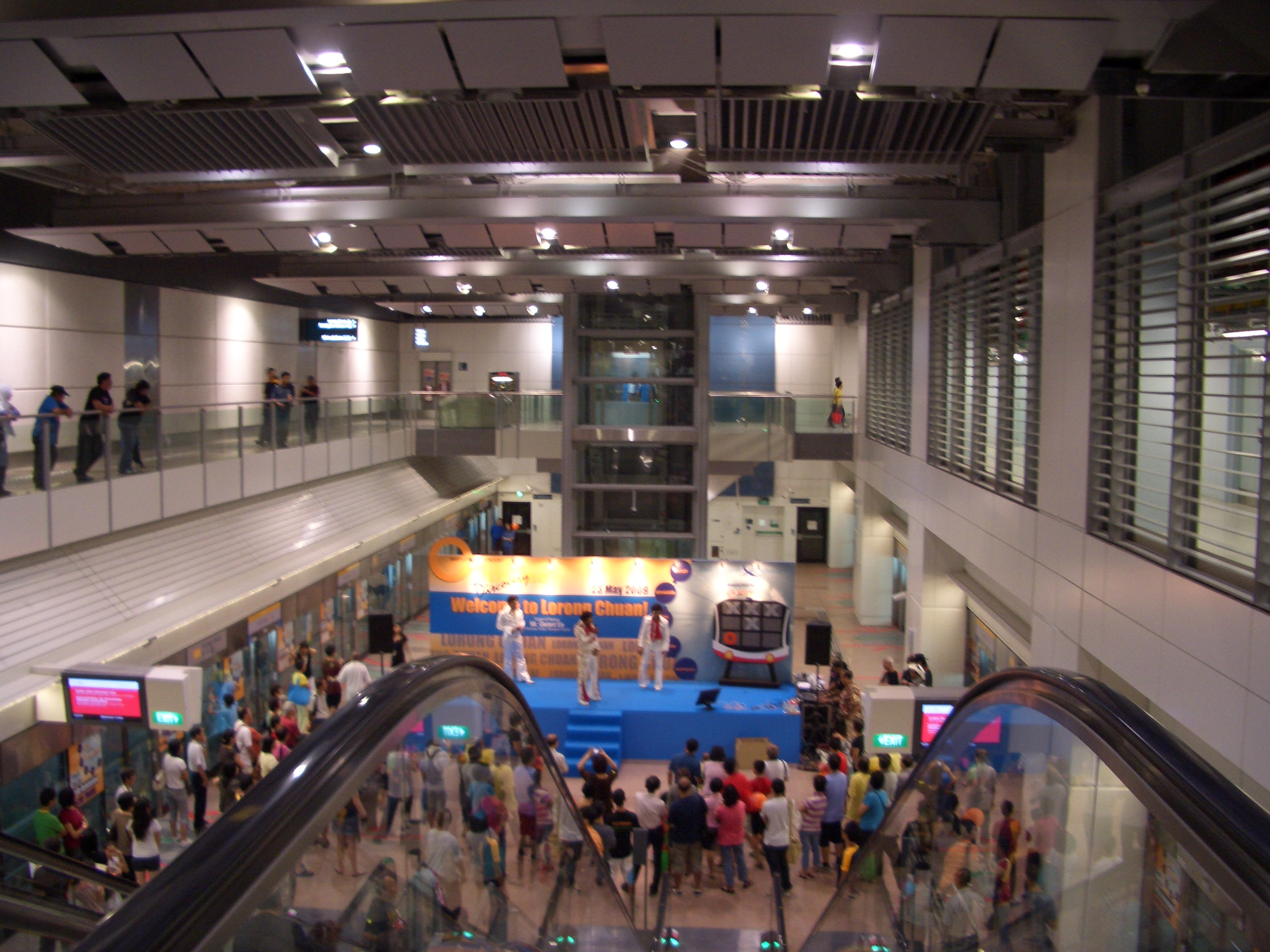 Lorong Chuan MRT Station on the Circle Mass Rapid Transit Line in Singapore.